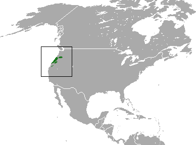 Pacific Shrew (Sorex pacificus) range